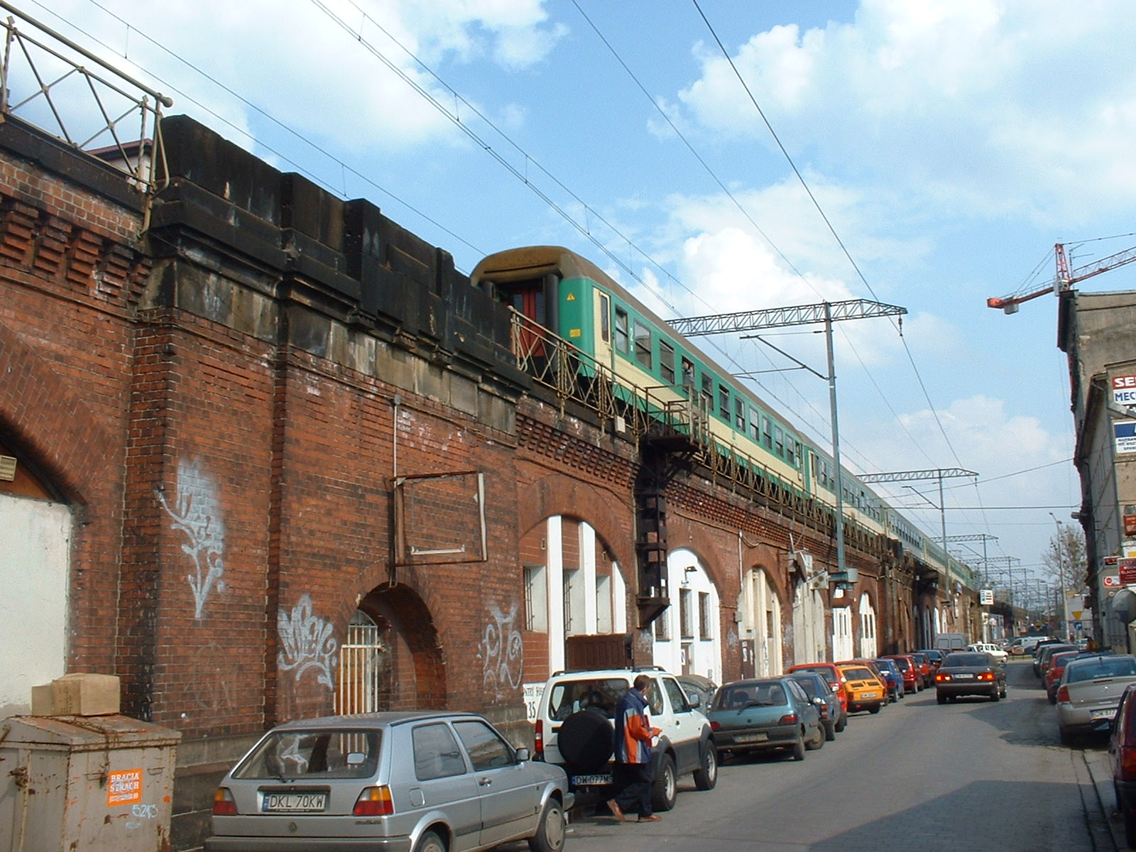 Wrocław, Poland, elevated connecting railway